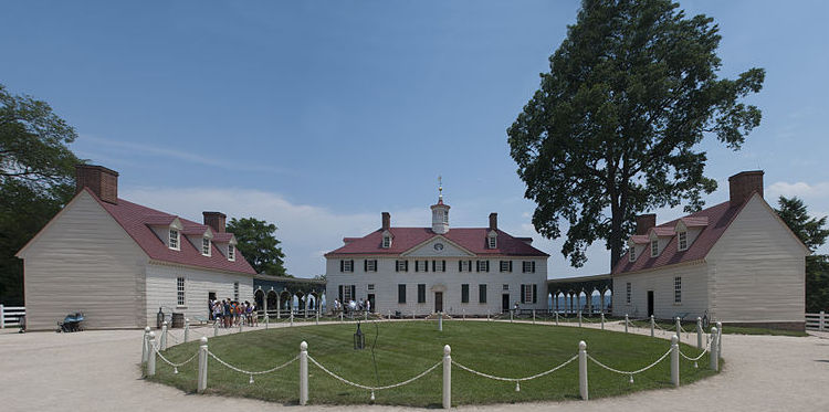 Photograph of Mount Vernon, Fairfax County, Virginia. George Washington's Home.